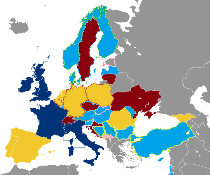 Overview of all International Rugby Divisions played during the 2017-18 season.